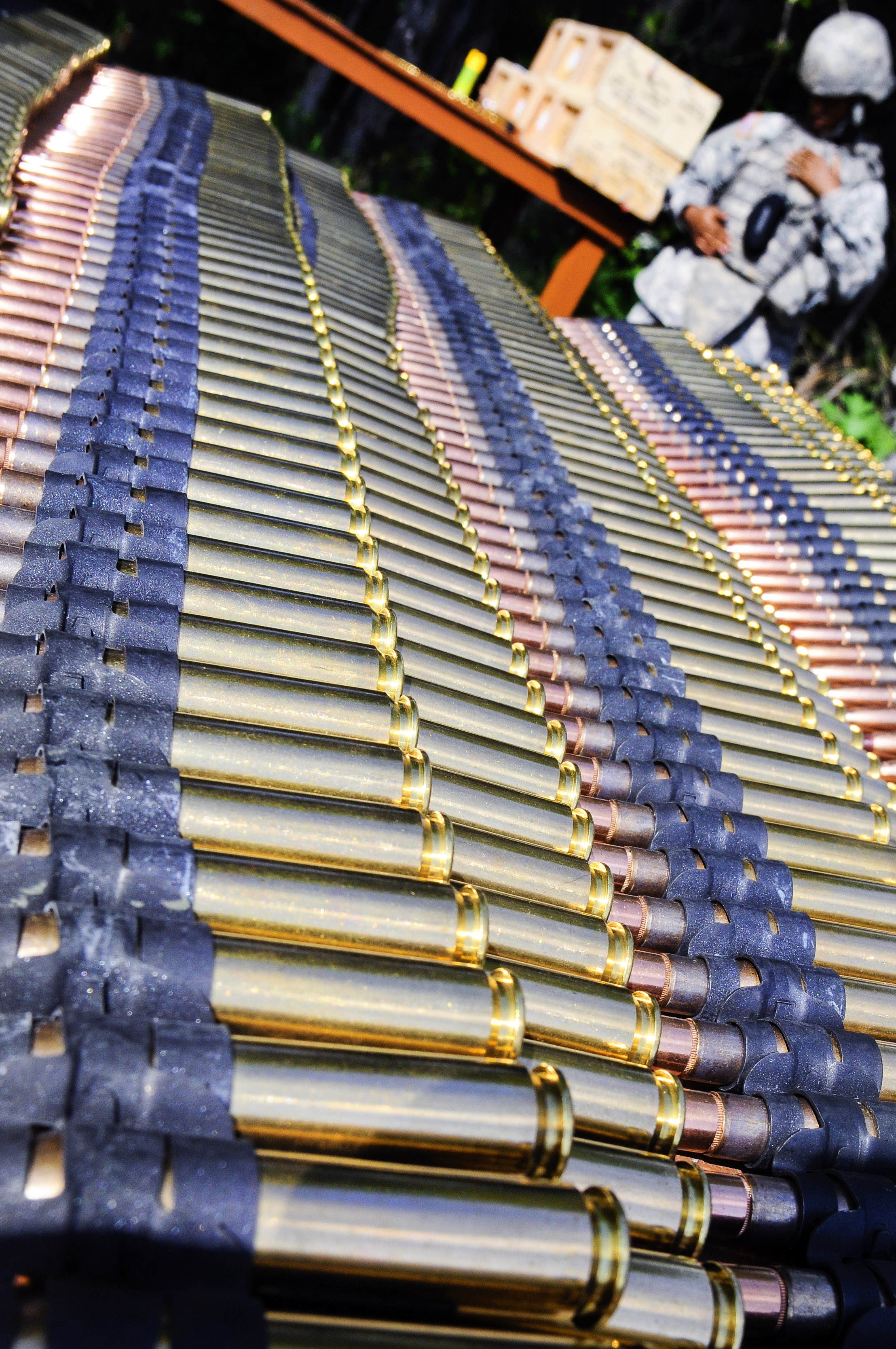 Soldiers prepare to conduct qualifications on an M2 .50-caliber machine gun on Joint Base Elmendorf-Richardson, Alaska, Aug. 14, 2012.